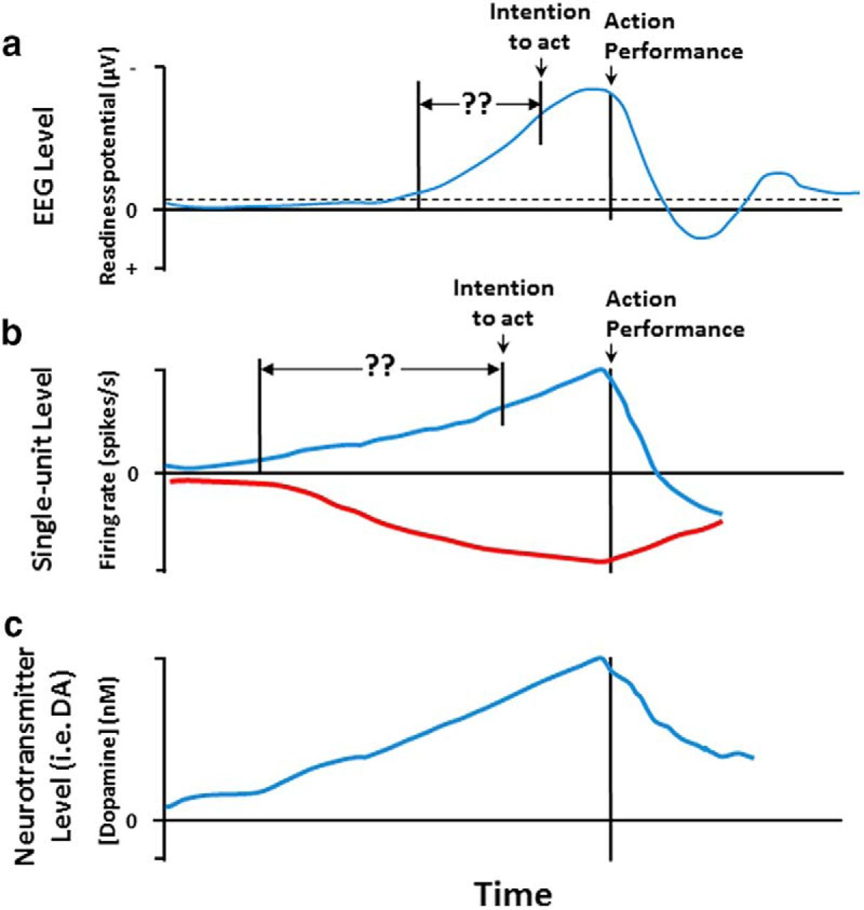 This image is from a scientific publication in the Journal of Neuroscience titled "Readiness Potential and Neuronal Determinism: New Insights on Libet Experiment", written by Karim Fifel. The image depicts three types of brain activity which build up before voluntary action: the readiness potential, an event-related potential measured by EEG; a ramp-up of single-neuron firing rates; and a buildup of neurotransmitter levels.